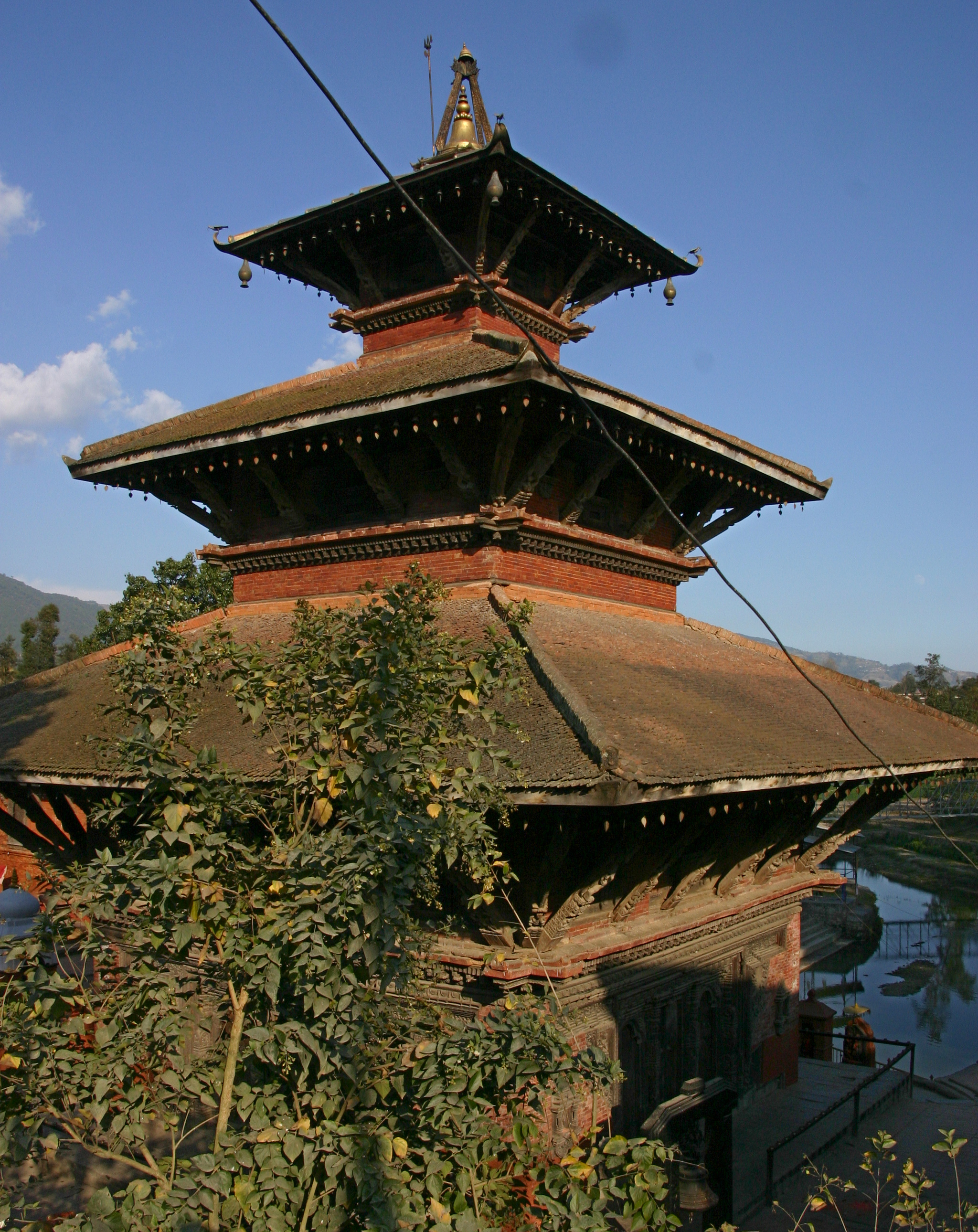 Gokarna Mahadev temple in Nepal